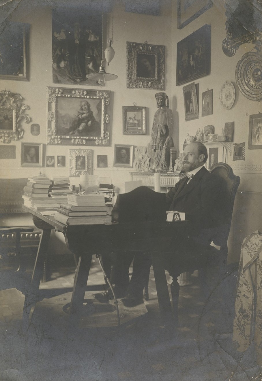 Photograph of Josep Dalmau i Rafel in his office at the Galeries Dalmau, carrer Portaferrisa, 18, 1911-1923